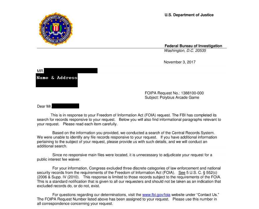 This is a letter from the FBI stating they do not have any records for the game Polybius